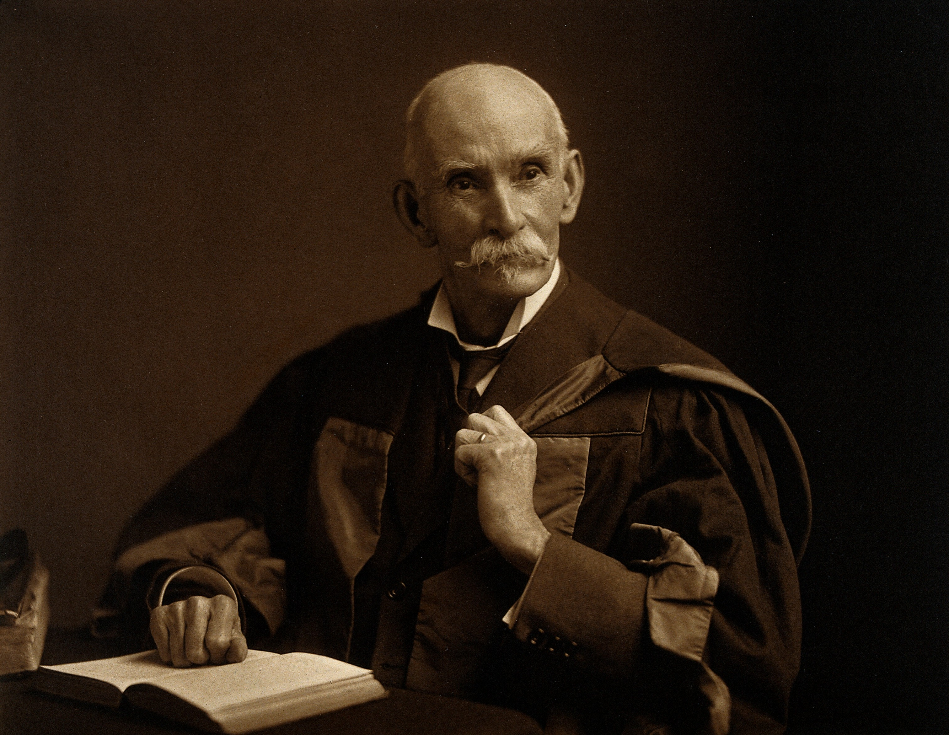 John Glaister. Photograph by T. & R. Annan & Sons. Iconographic Collections Keywords: portrait photographs